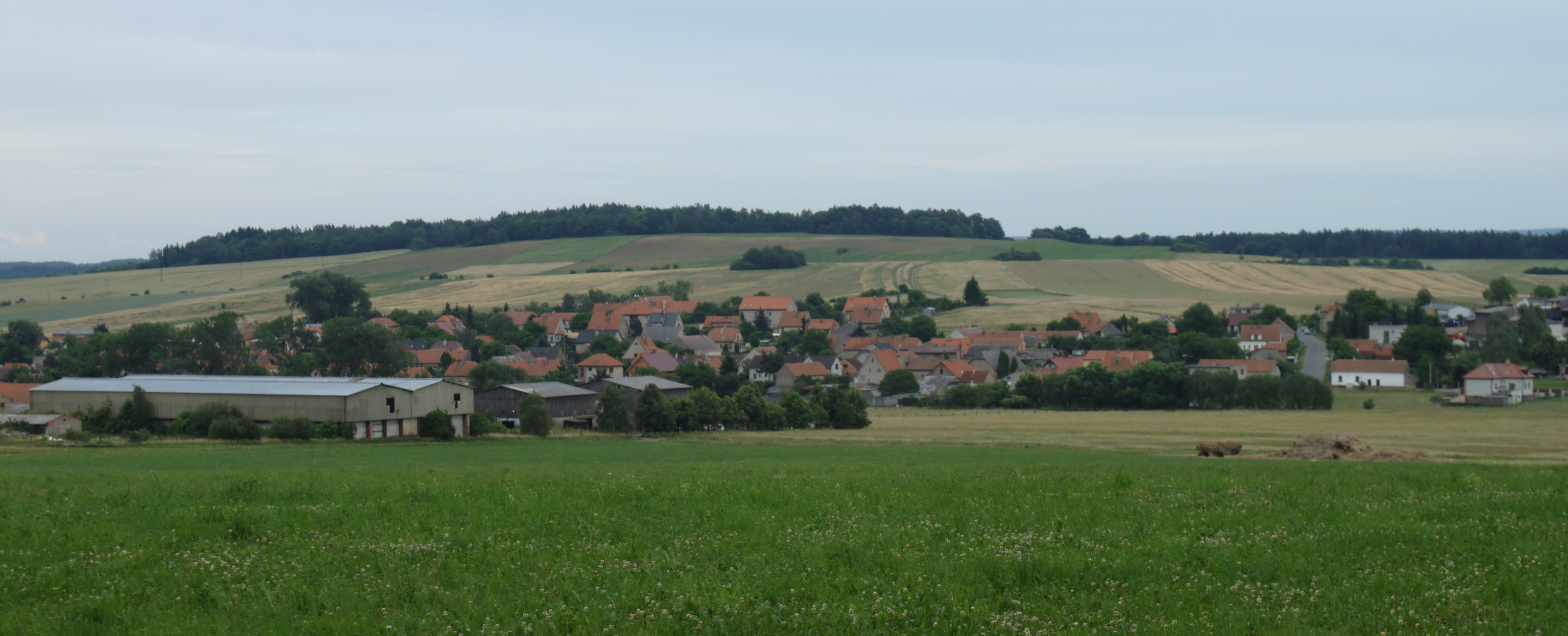 Town of Chyňava seen from northwest, Central Bohemian Region, CZ